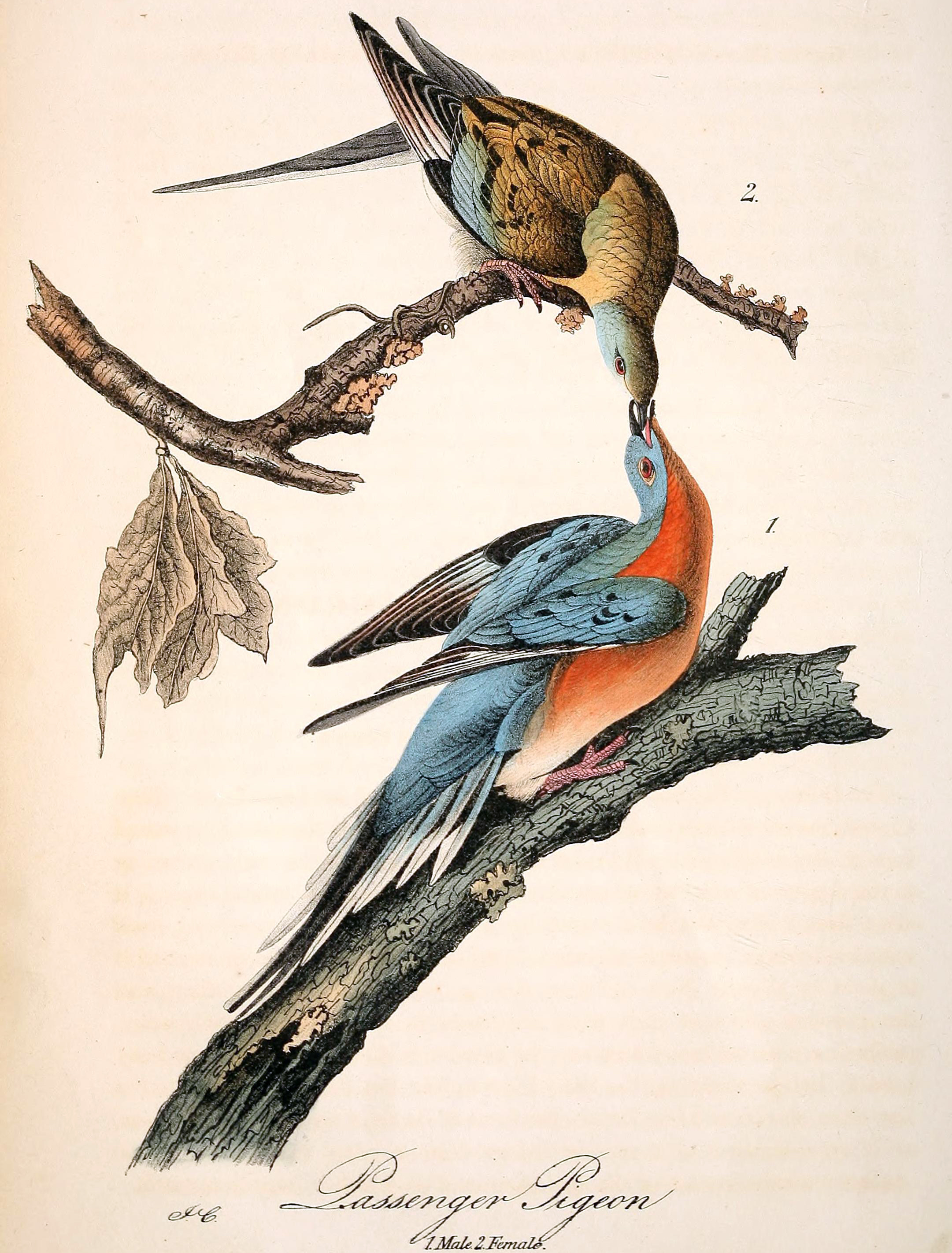 "PASSENGER PIGEON (Columba Migratoria) / Upper bird, female; lower, male / Reproduced from the John J. Audubon Plate"